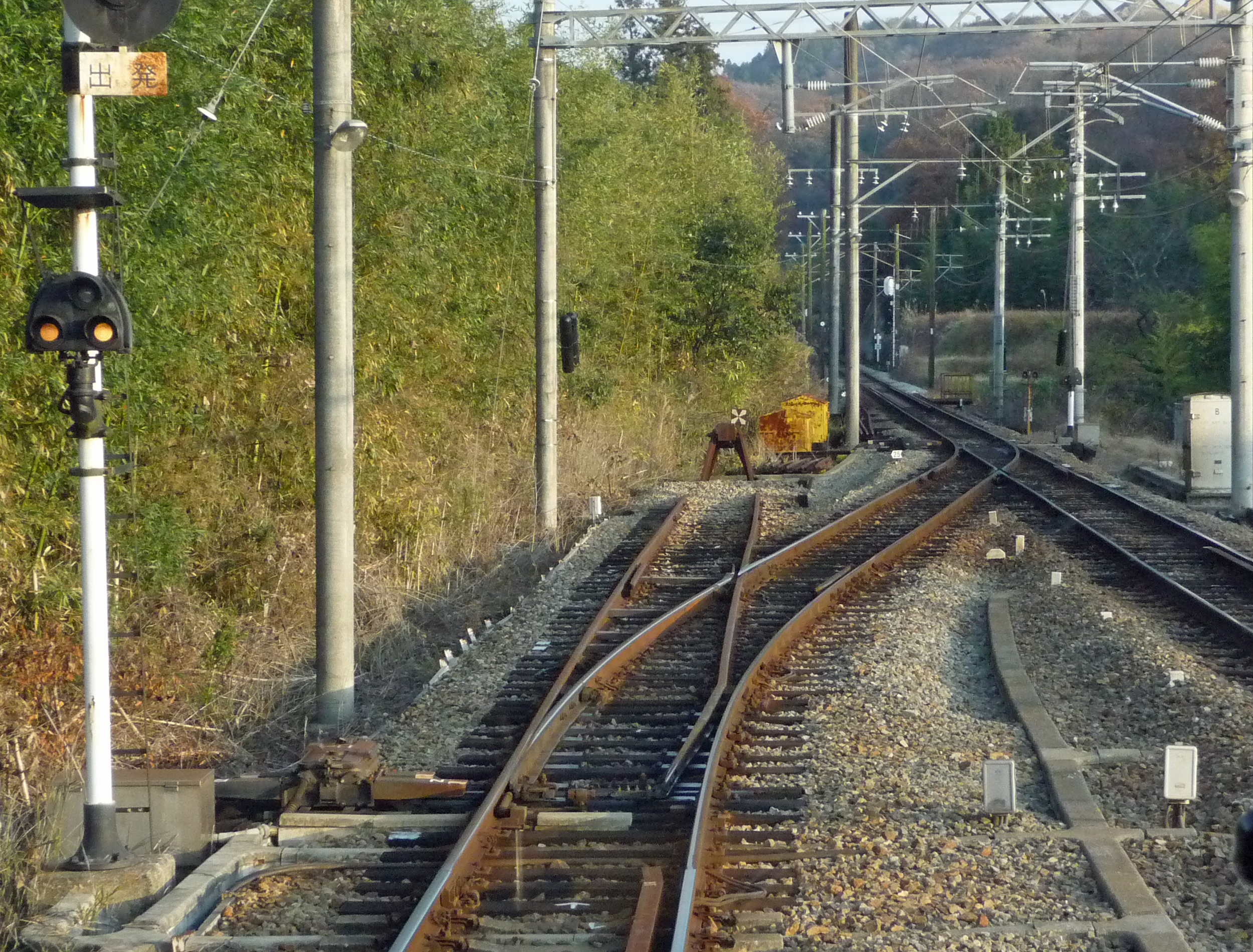 Kawaike Interlocking on Shintetsu Ao Line